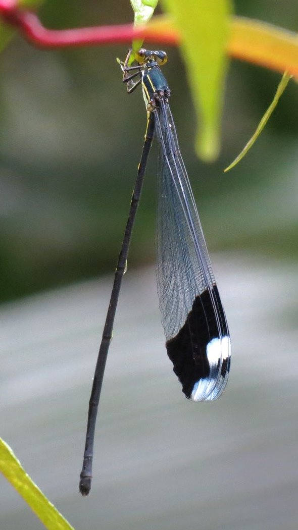 Megaloprepus caerulatus. Along Pipeline Road, Soberania National Park, Panama. 23 January 2012. Thanks to Andres Hernandez S. for the id!